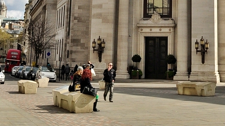 Freemasons’ Hall, headquarters of the United Grand Lodge of England, located in Great Queen Street, with Camden benches in foreground.